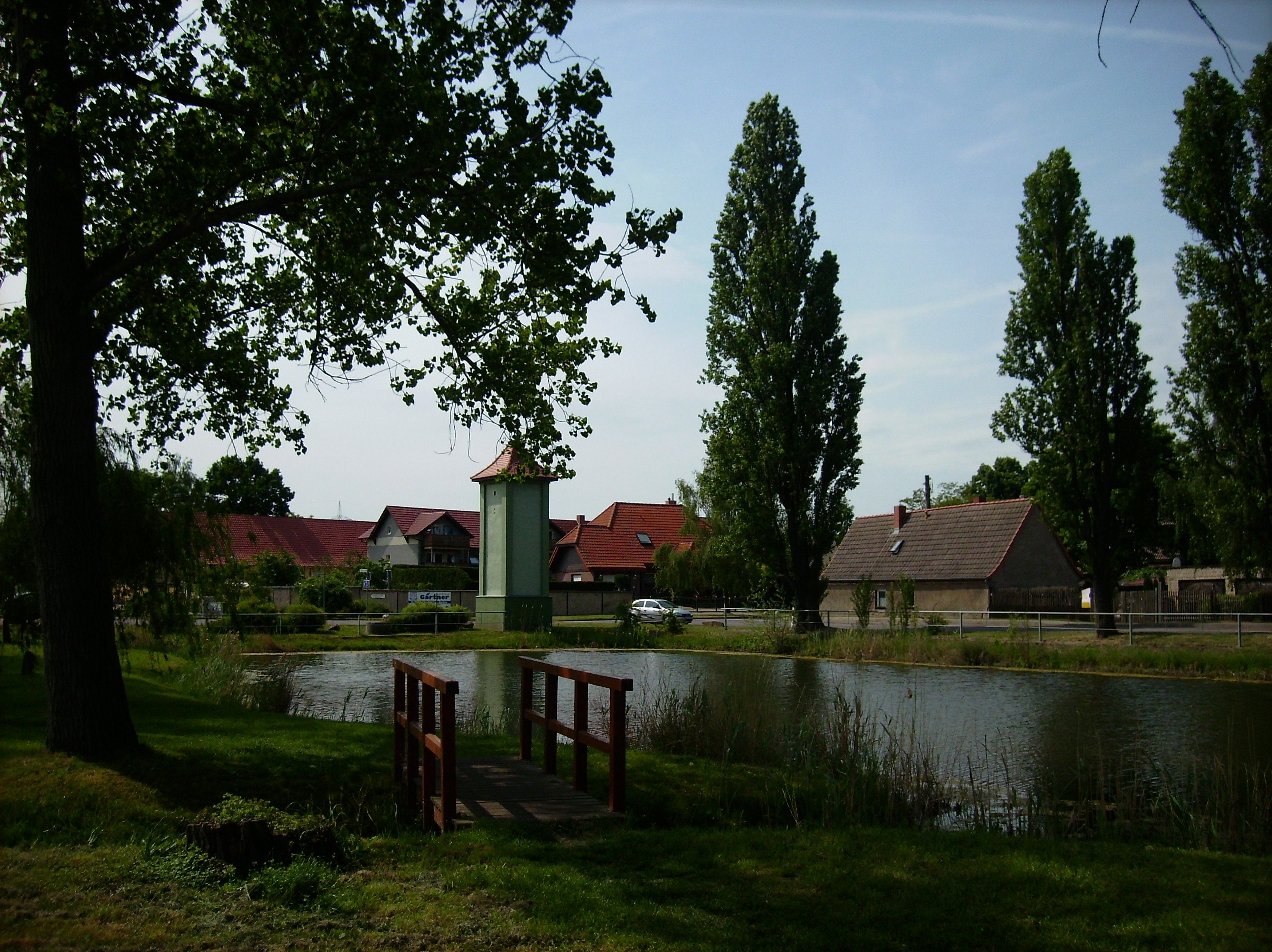 At the pond in Dölbau (Kabelsketal, district of Saalekreis, Saxony-Anhalt)